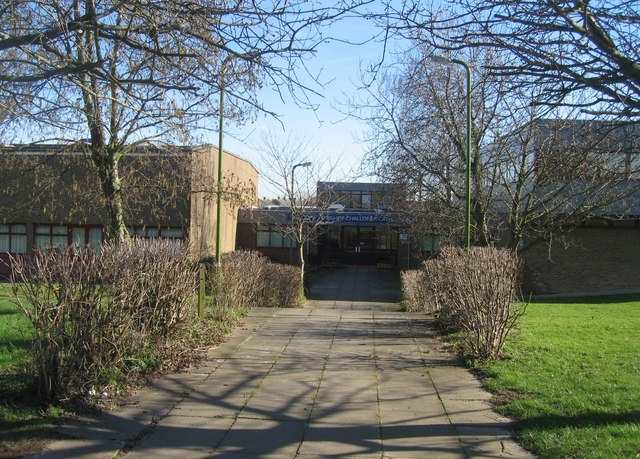 Entrance to Bishop Challoner School